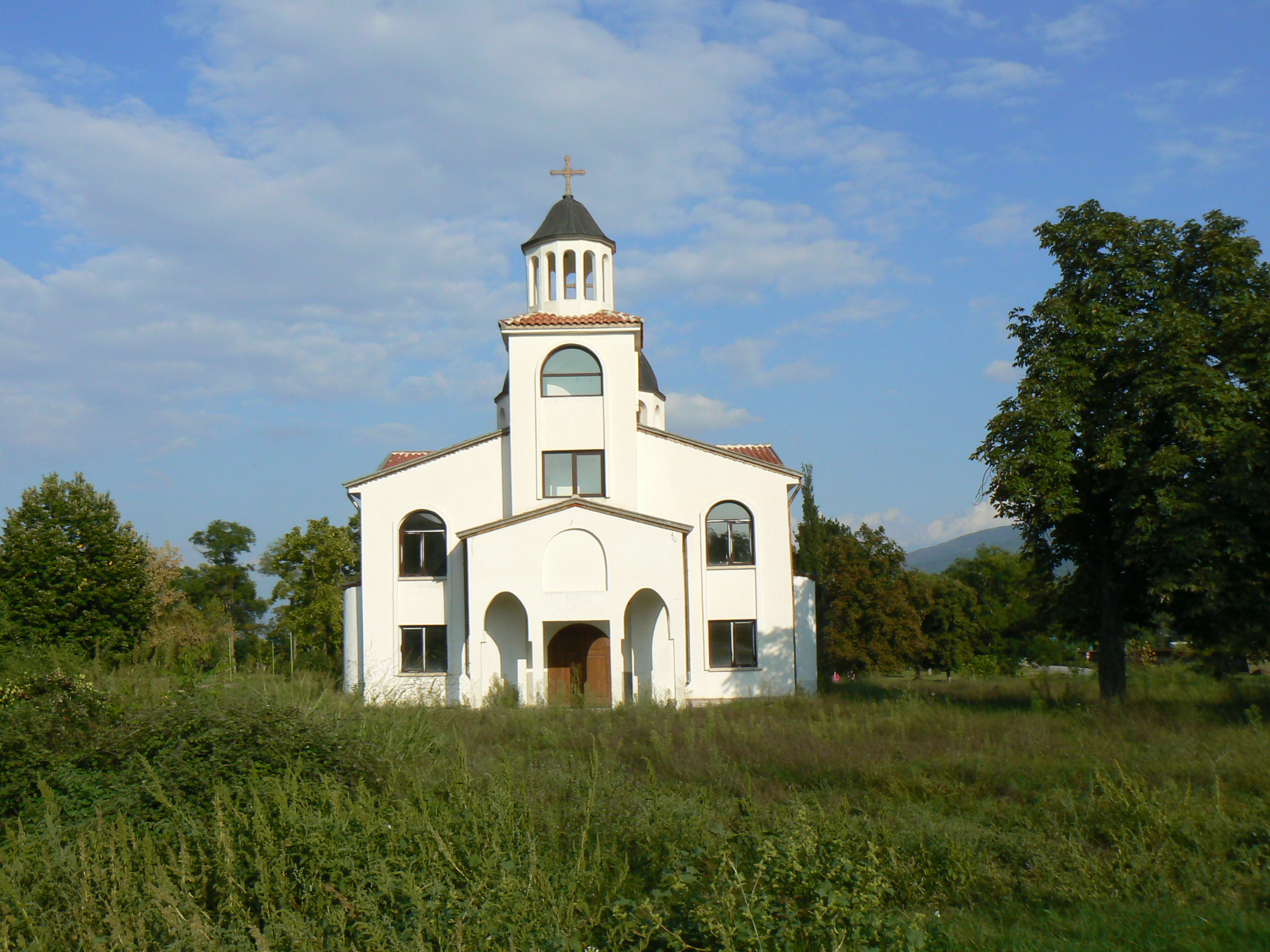 Church in Parvomay village, Blagoevgrad District, Bulgaria